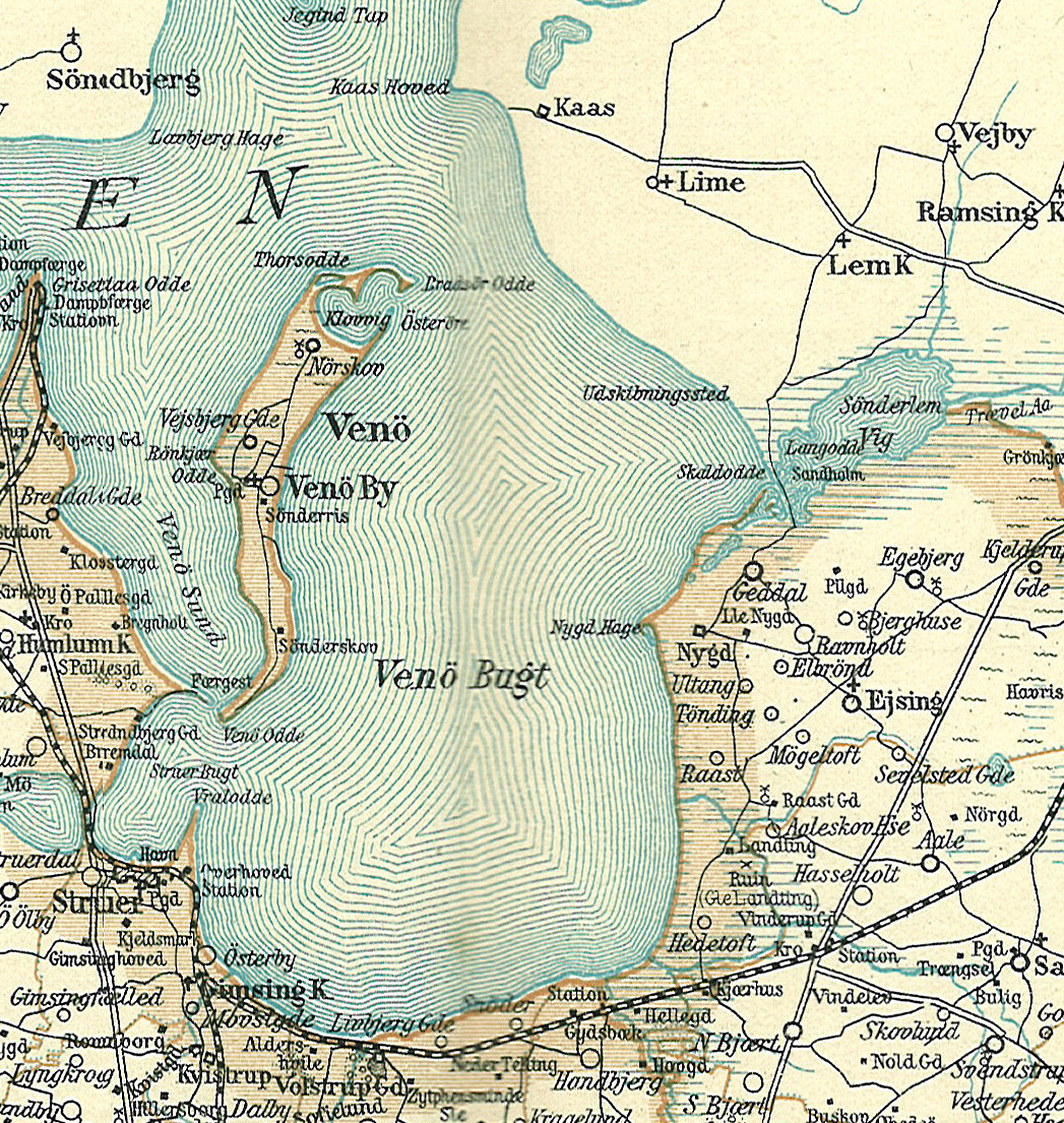 Map of Venø Bugt in Limfjorden the northern part of Ringkøbing County in Denmark